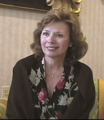 American actress Kathryn Leigh Scott, famed for television program Dark Shadows, interviewed by Count Gore De Vol.